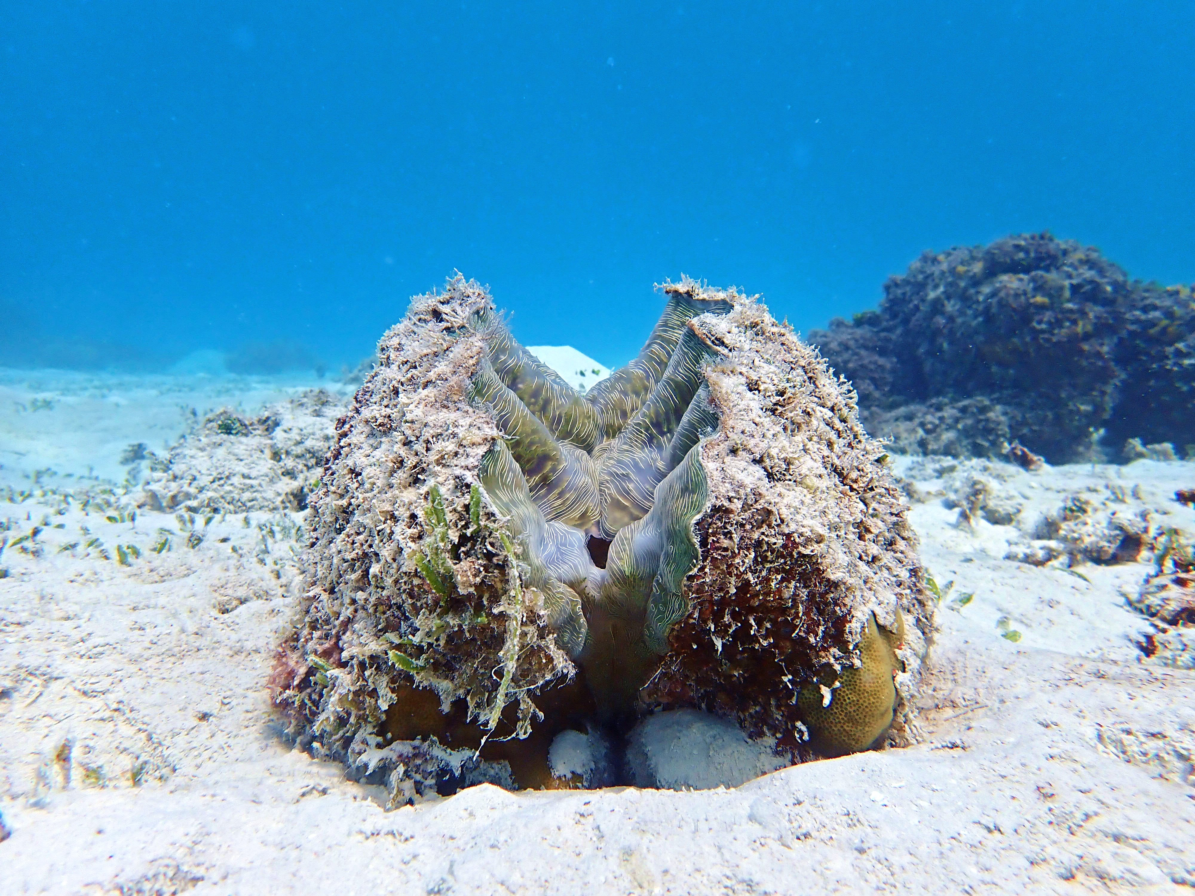 A bear-paw clam (Hippopus hippopus) observed in Vanuatu (Lonnoc, Santo island).